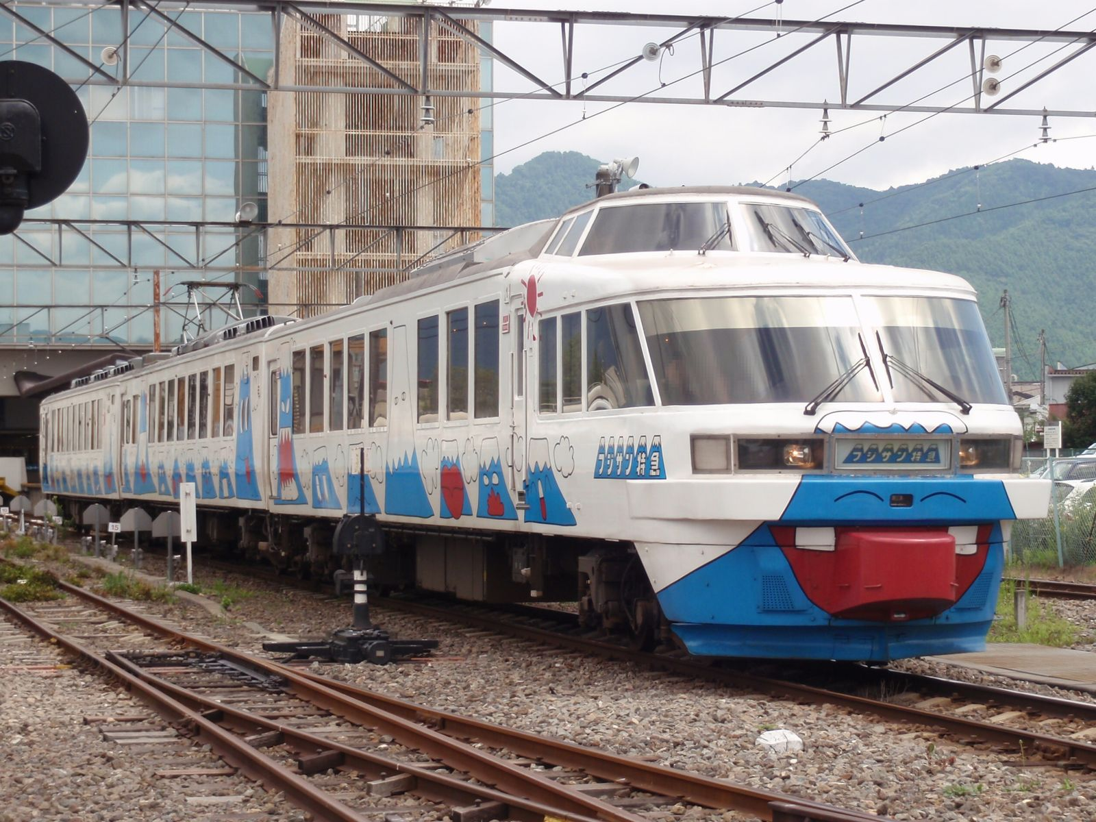 Fujikyuko 2000 series "Fujisan Limited Express" EMU